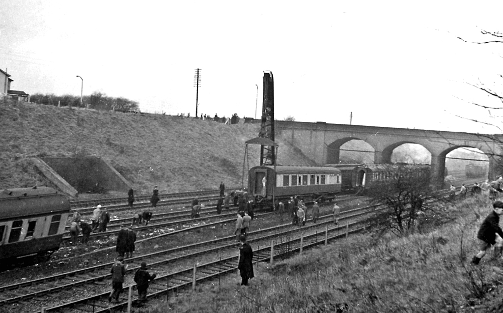 Clearing the wreckage of the Up 'Aberdonian' after its collision with a local train near Welwyn Garden City. View northward, as TL2311 : After a bad collision on the ECML south of Welwyn Garden City, TL2311 : Lifting the locomotive of the Up express that ran into an Up Local south of Welwyn Garden City and TL2311 : Welwyn Garden City accident of January 7 1957; general view of the Up express.